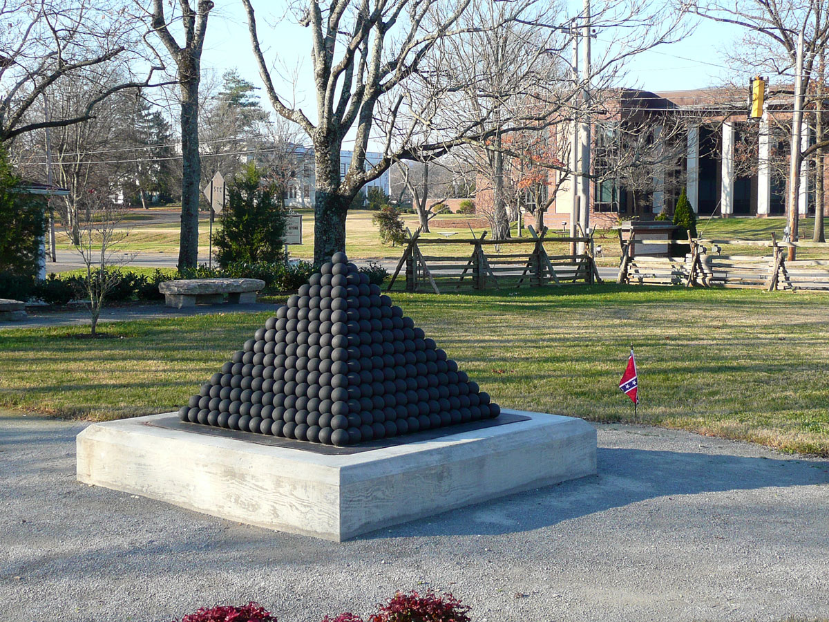 Photograph of memorial to the death of Confederate Gen. Patrick Cleburne in Franklin, Tennessee.